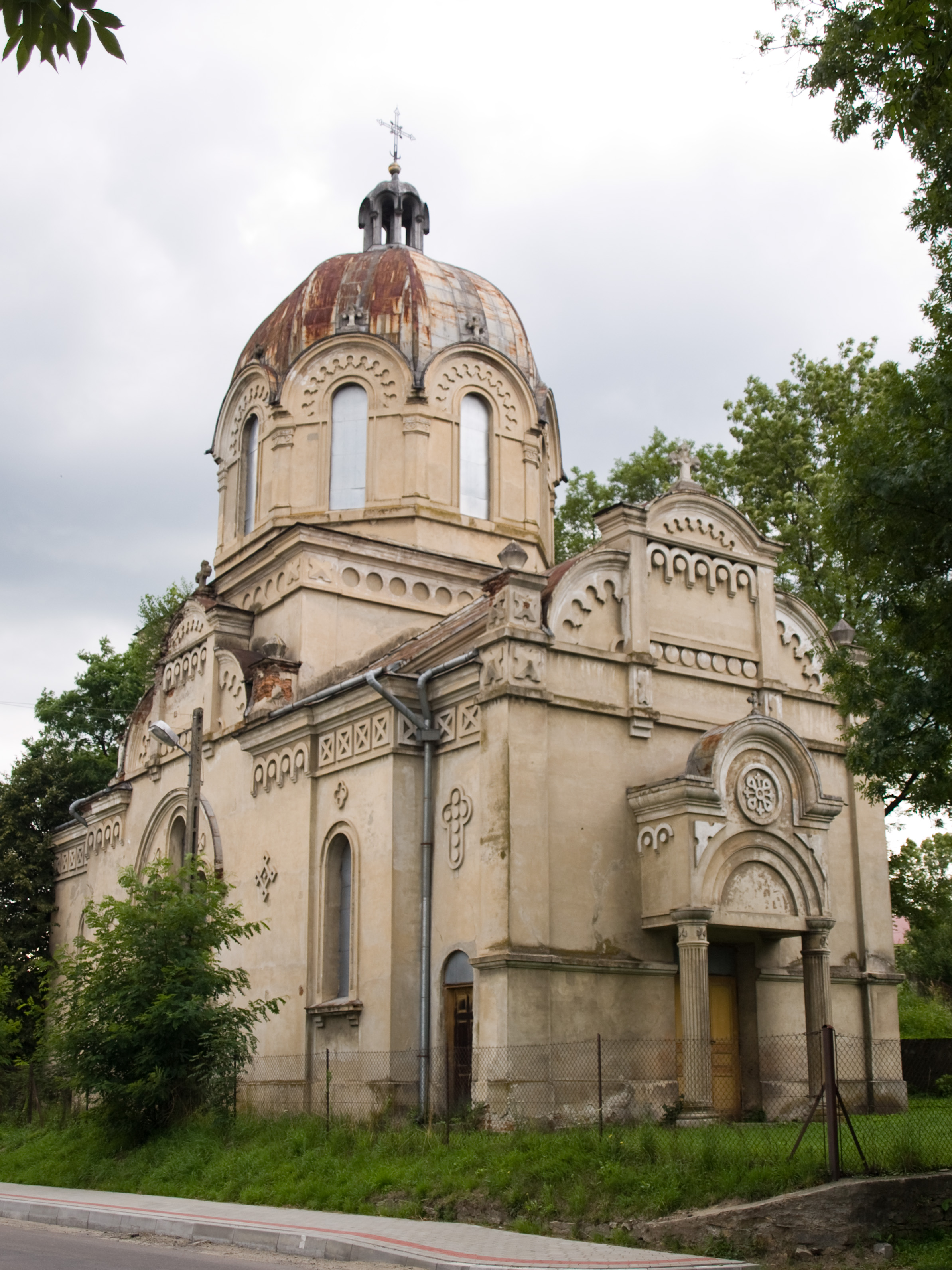 Church, Krzywcza, Subcarpathian Voivodeship